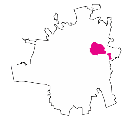 The location of Las Quintas zone.